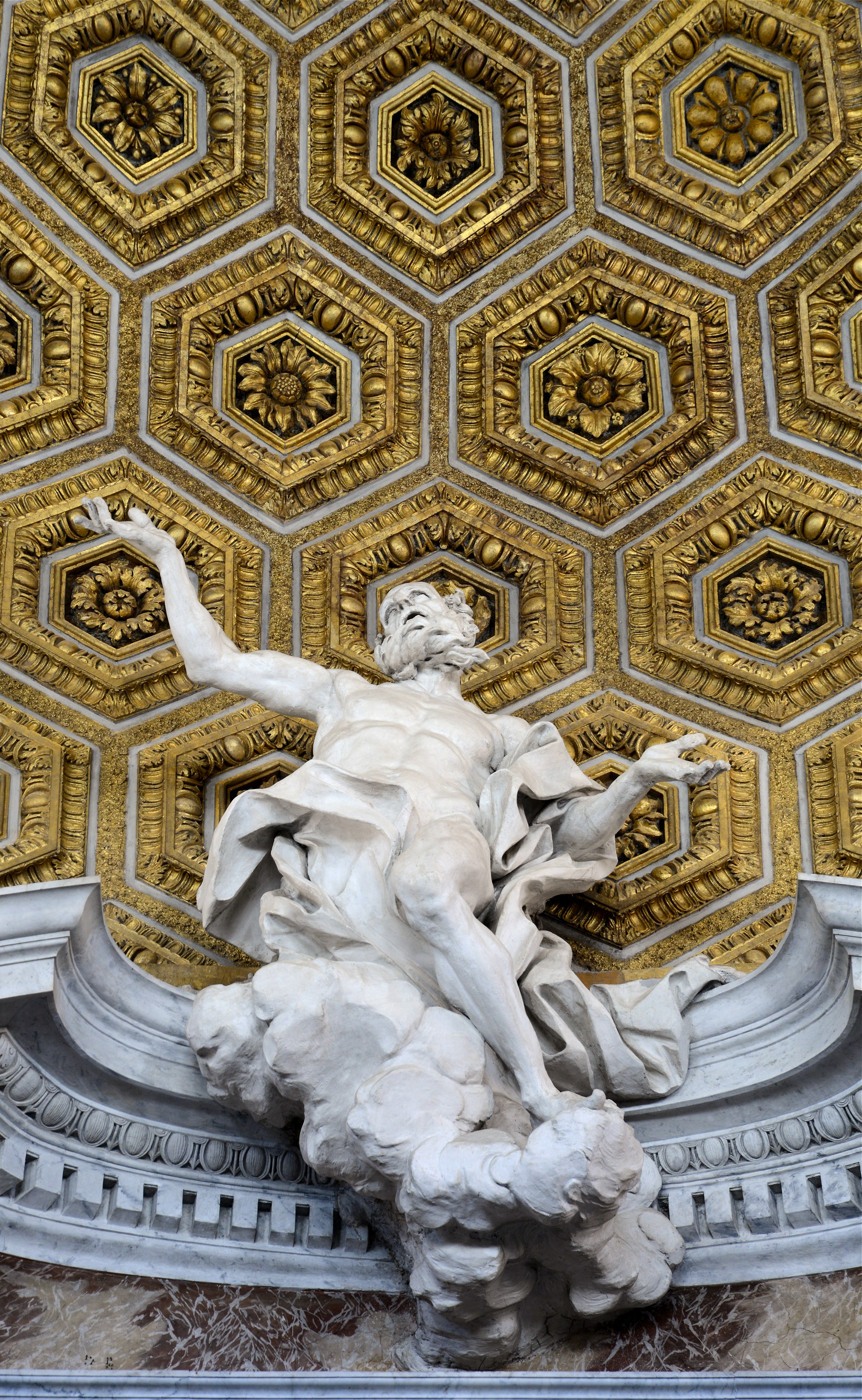 Sant Andrew ascending to the sky on a cloud, by Antonio Raggi. Church of Sant'Andrea al Quirinale, Rome